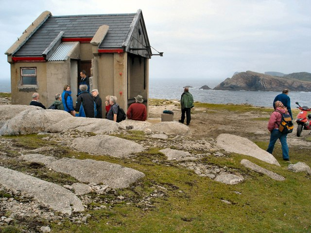 Derek Hill's hut on Toraig This hut, formerly a coastguard signal station, was used by the late Derek Hill, an English landscape painter, on his frequent visits to Toraig from 1956. His work provides a record of the islander's life from that time.